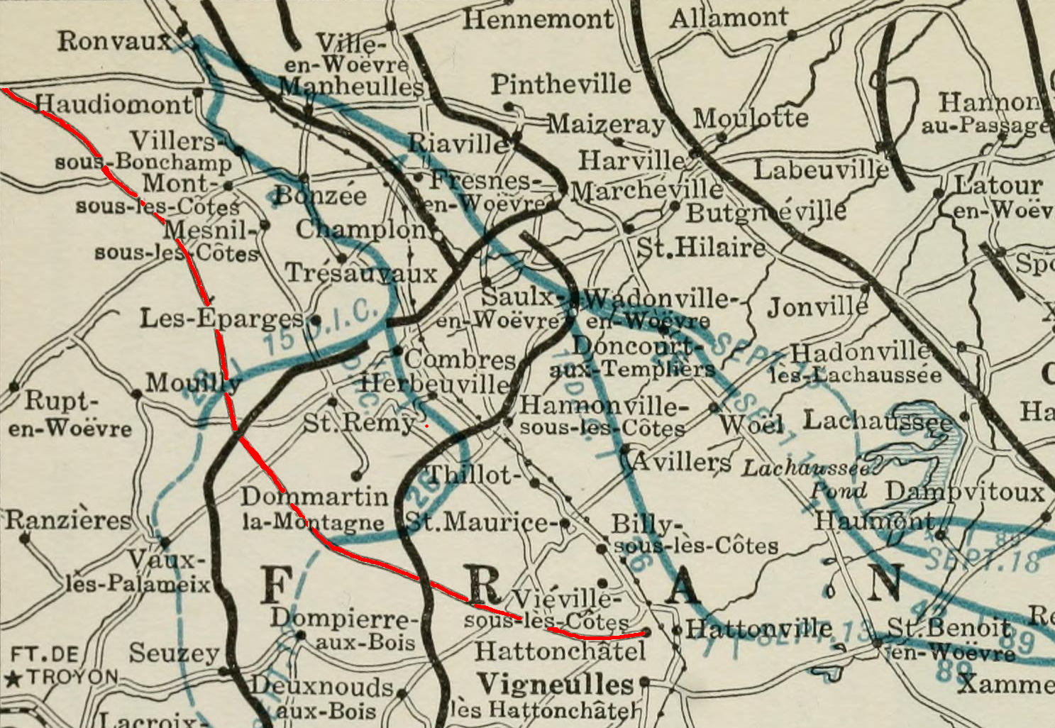 Tranchée de Calonne (marked in red) during the battle of St. Mihiel, September 1918